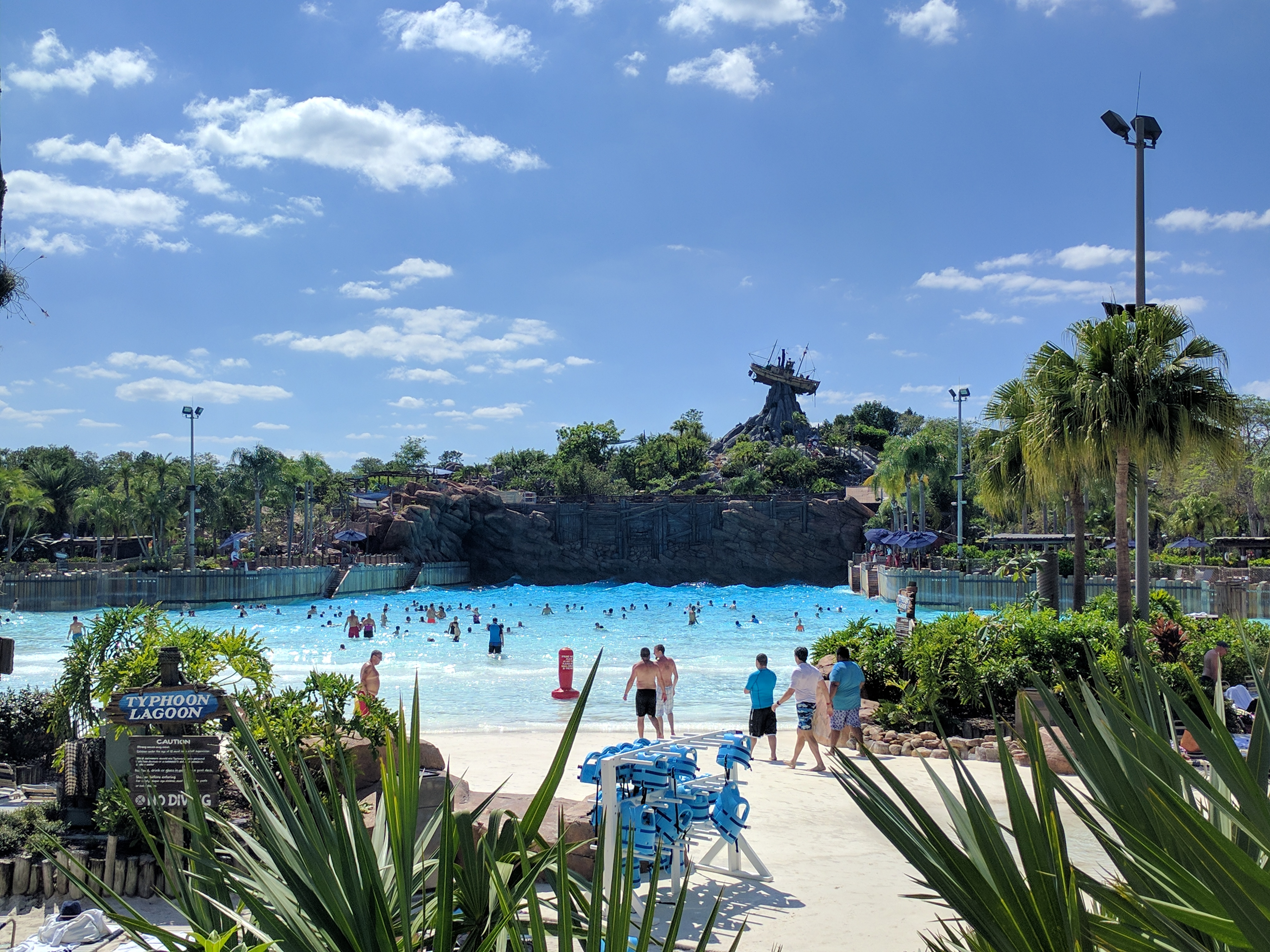 Typhoon Lagoon Surf/Wave Pool